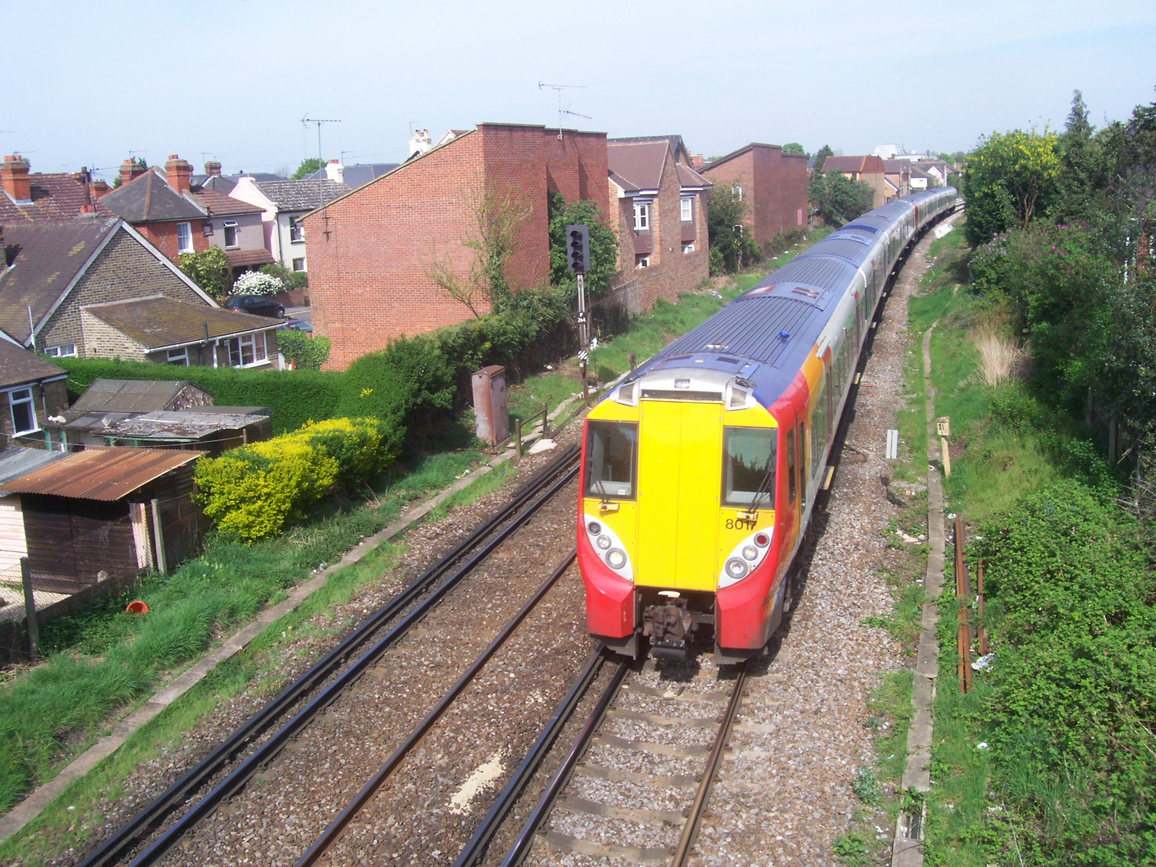 British Rail Class 458 'Juniper' passing through Egham en route to Reading, taken by me in April 2007.